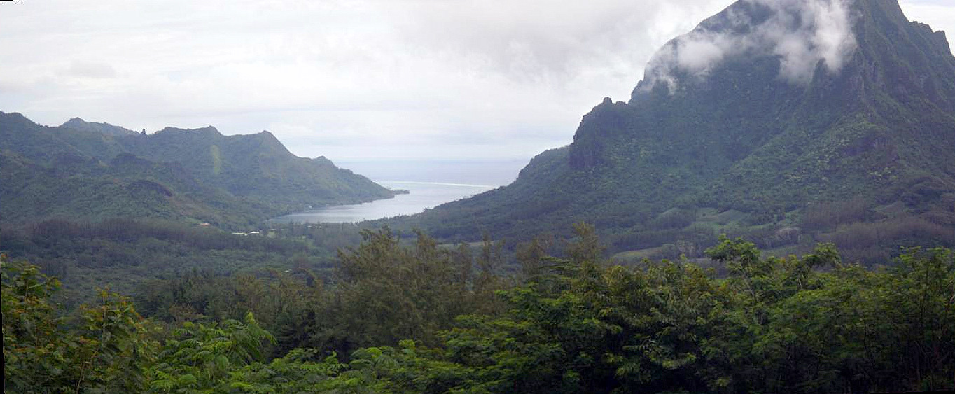 Moorea cook bay from the hills